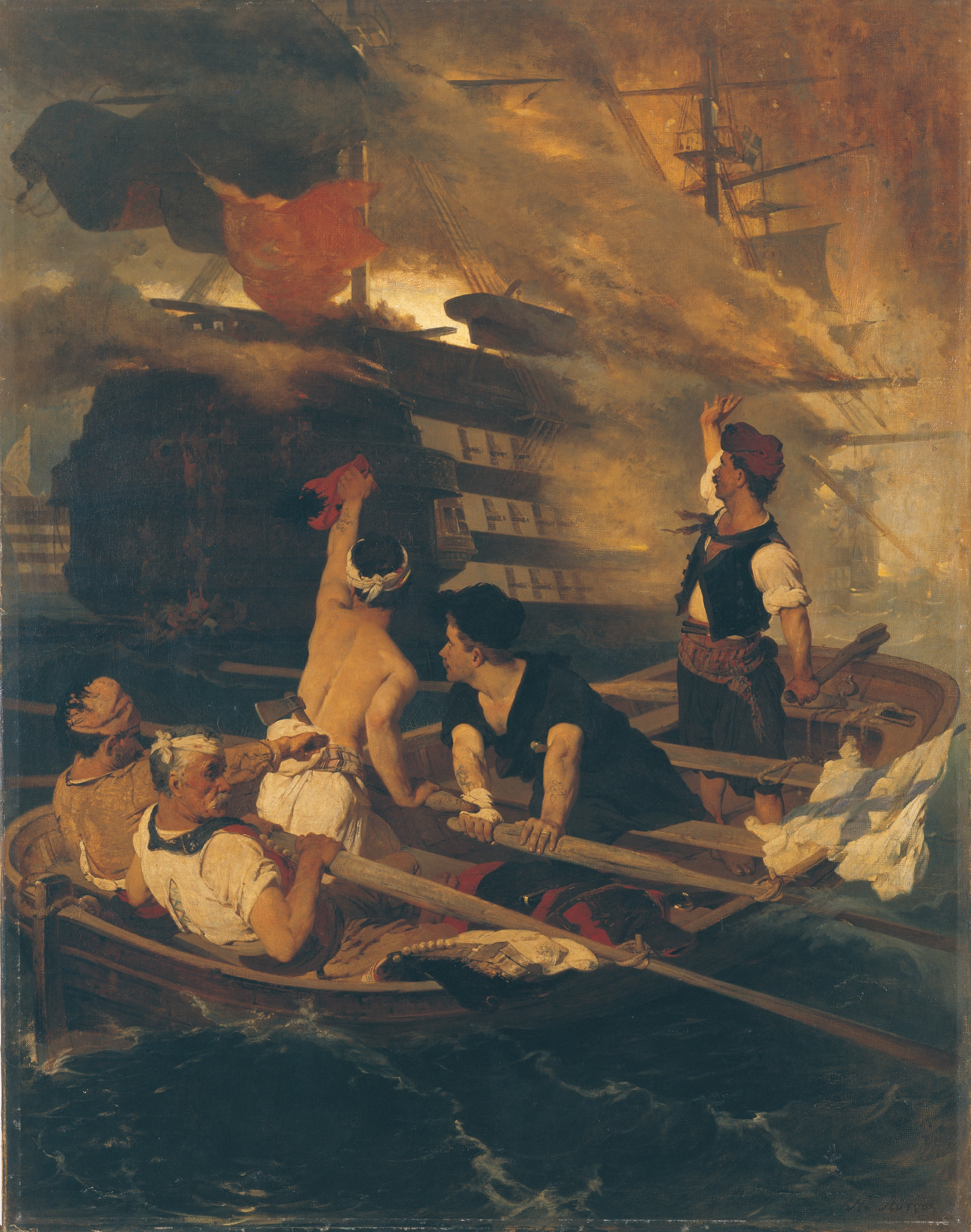 Painting of the attack to the turkish flagship by a fireship commanded by Kanaris at the island of Chios